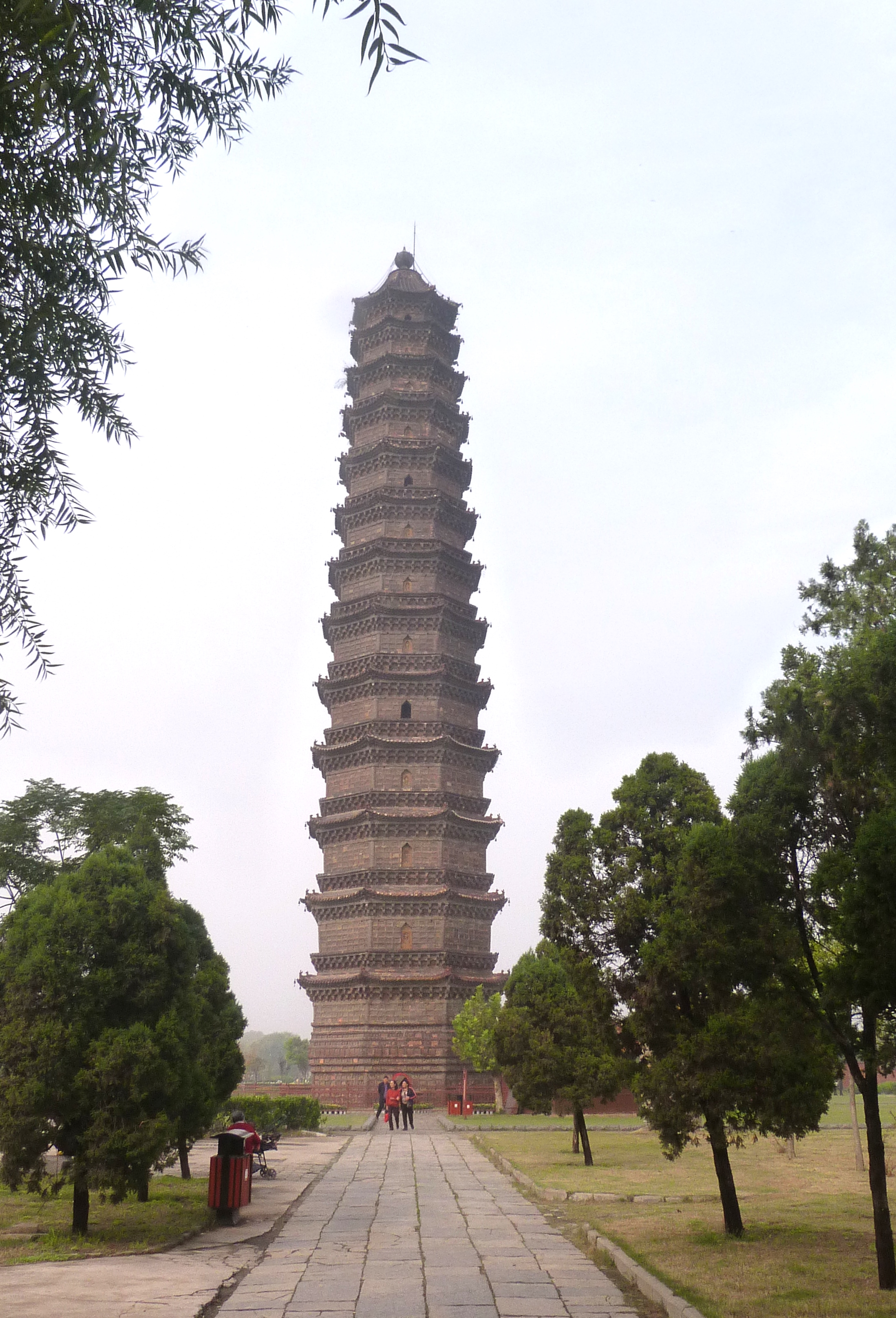 Kaifeng Iron Pagoda with wind bells under the eaves and rings of articulated dougong